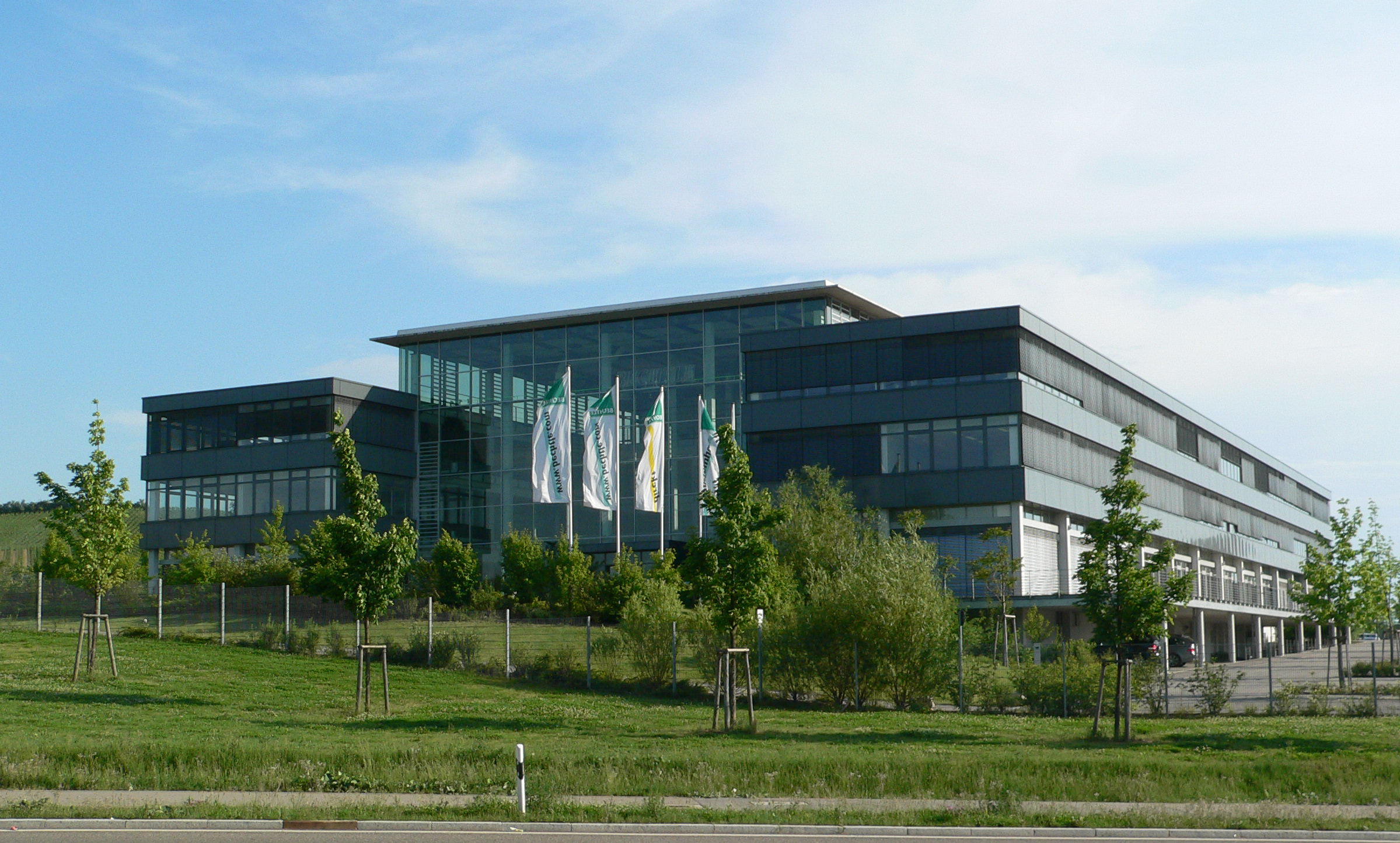 The principal office of the company Bechtle AG (view from the north), Neckarsulm/Germany, by J. Köhler - 2007